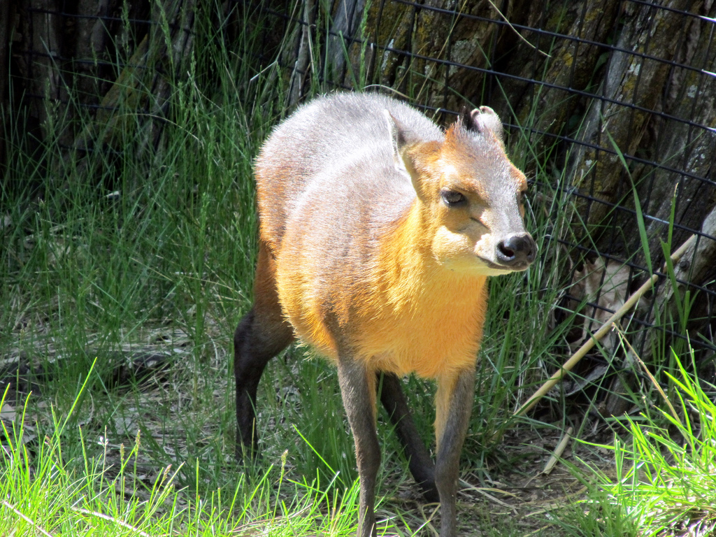 An absoulutly beautifully-colored duiker. A cool combo of red and blue tints.